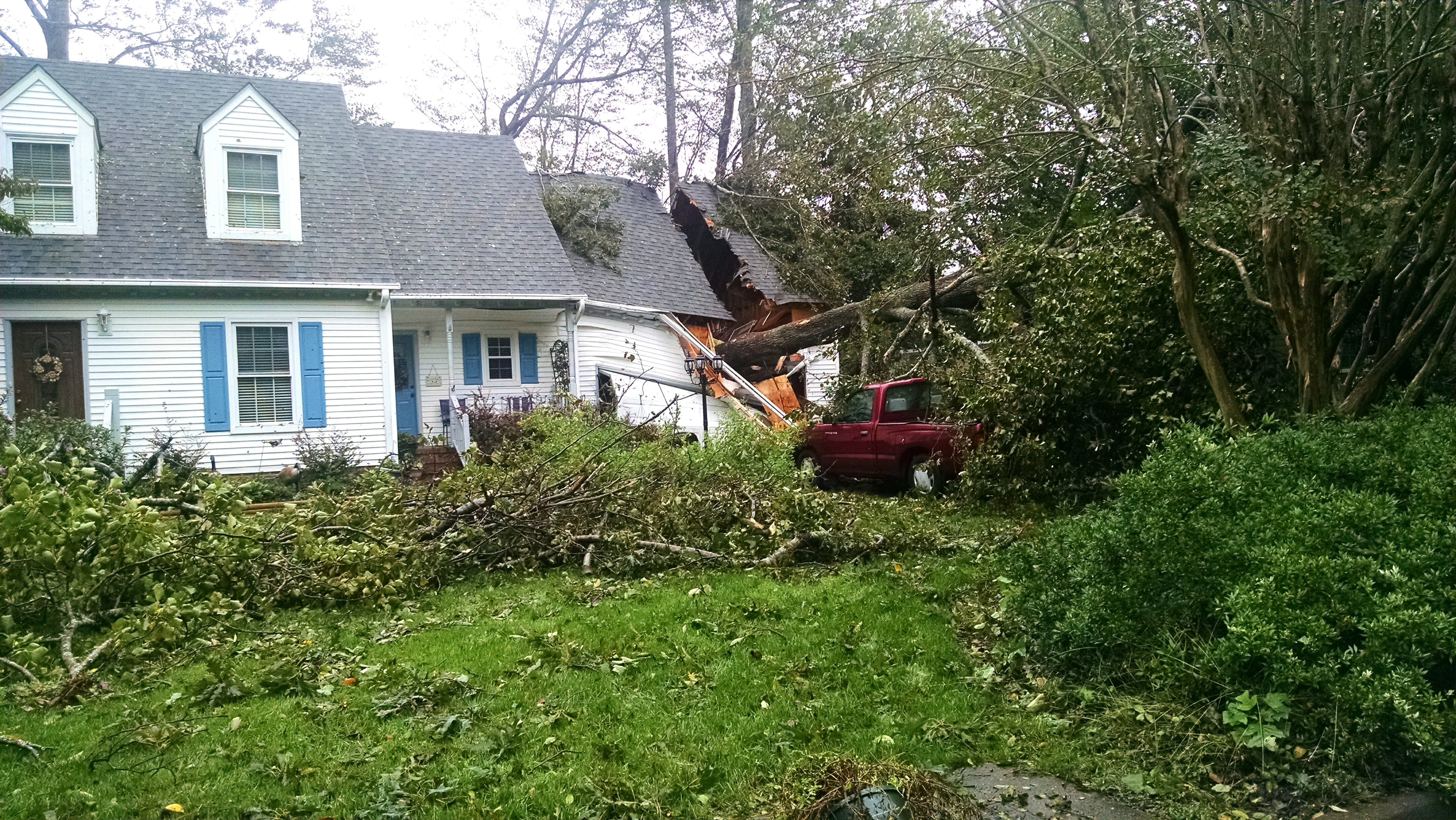 Heavy rains and high winds from Hurricane Matthew resulted in many trees falling in Lago Mar, Virginia Beach, Virginia.